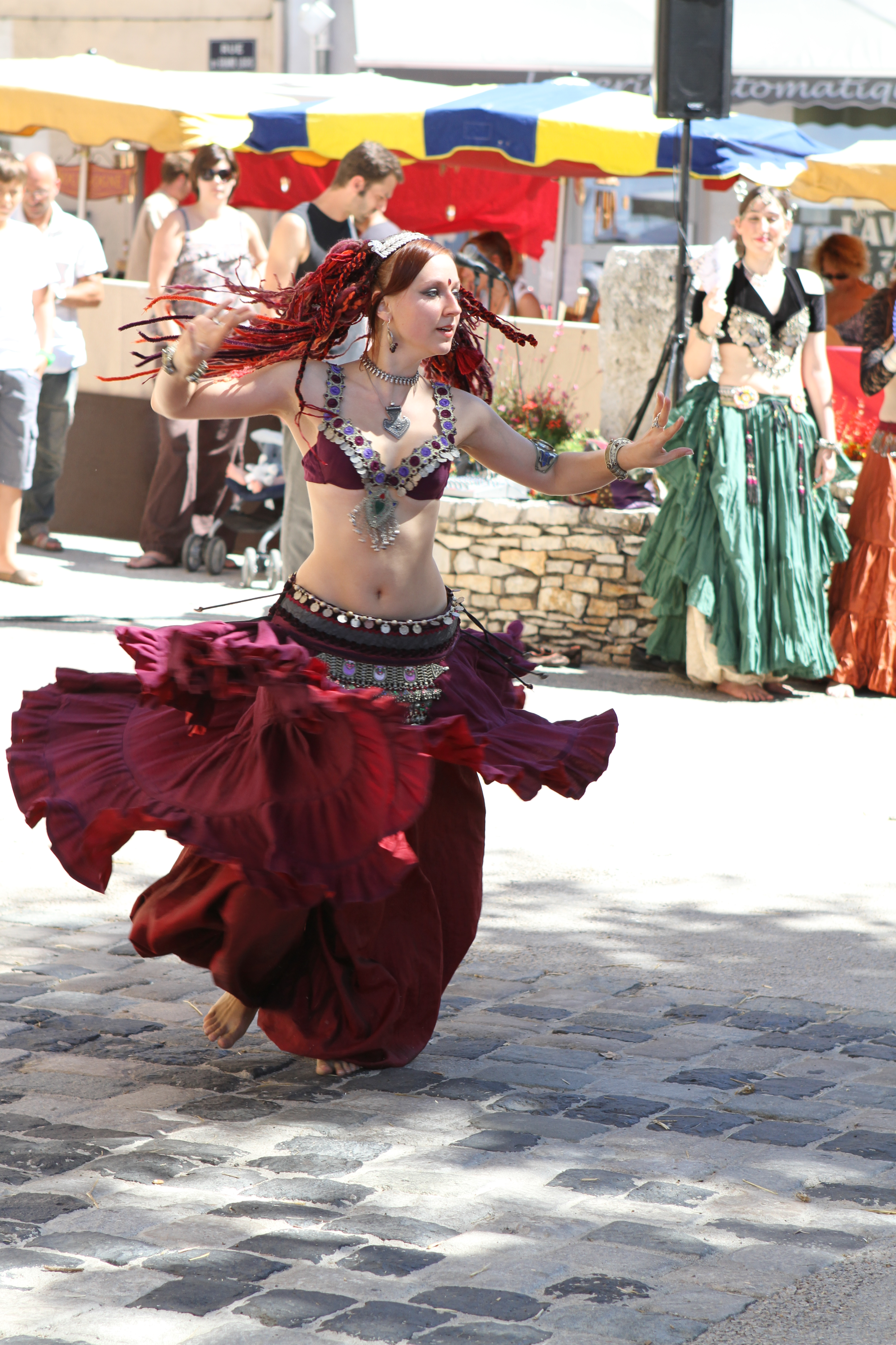 Tribal fusion dance with Balkys at renaissance fair of Éguilles (Bouches-du-Rhône, France).